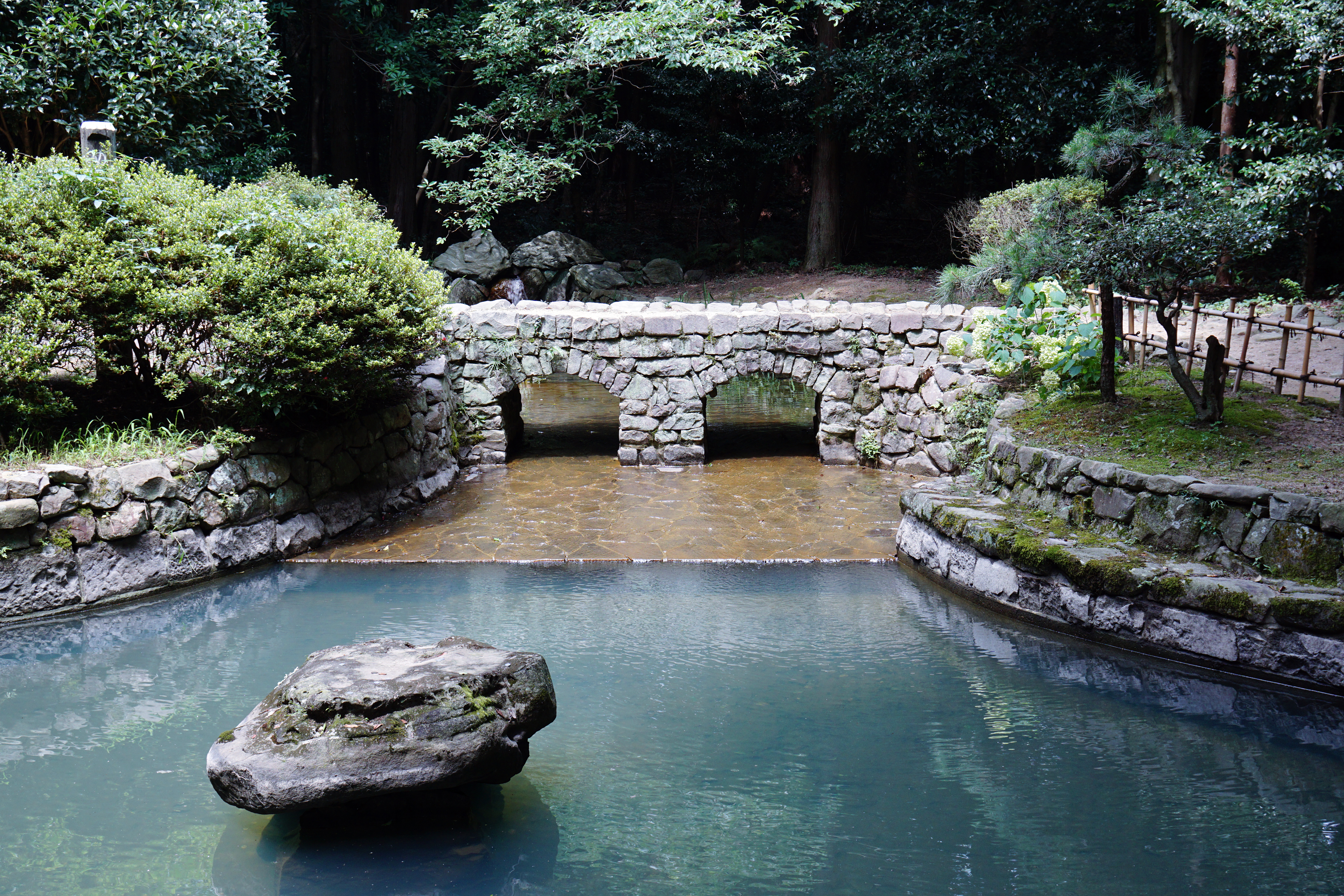 Ōasahiko Shrine in Naruto, Tokushima prefecture, Japan.